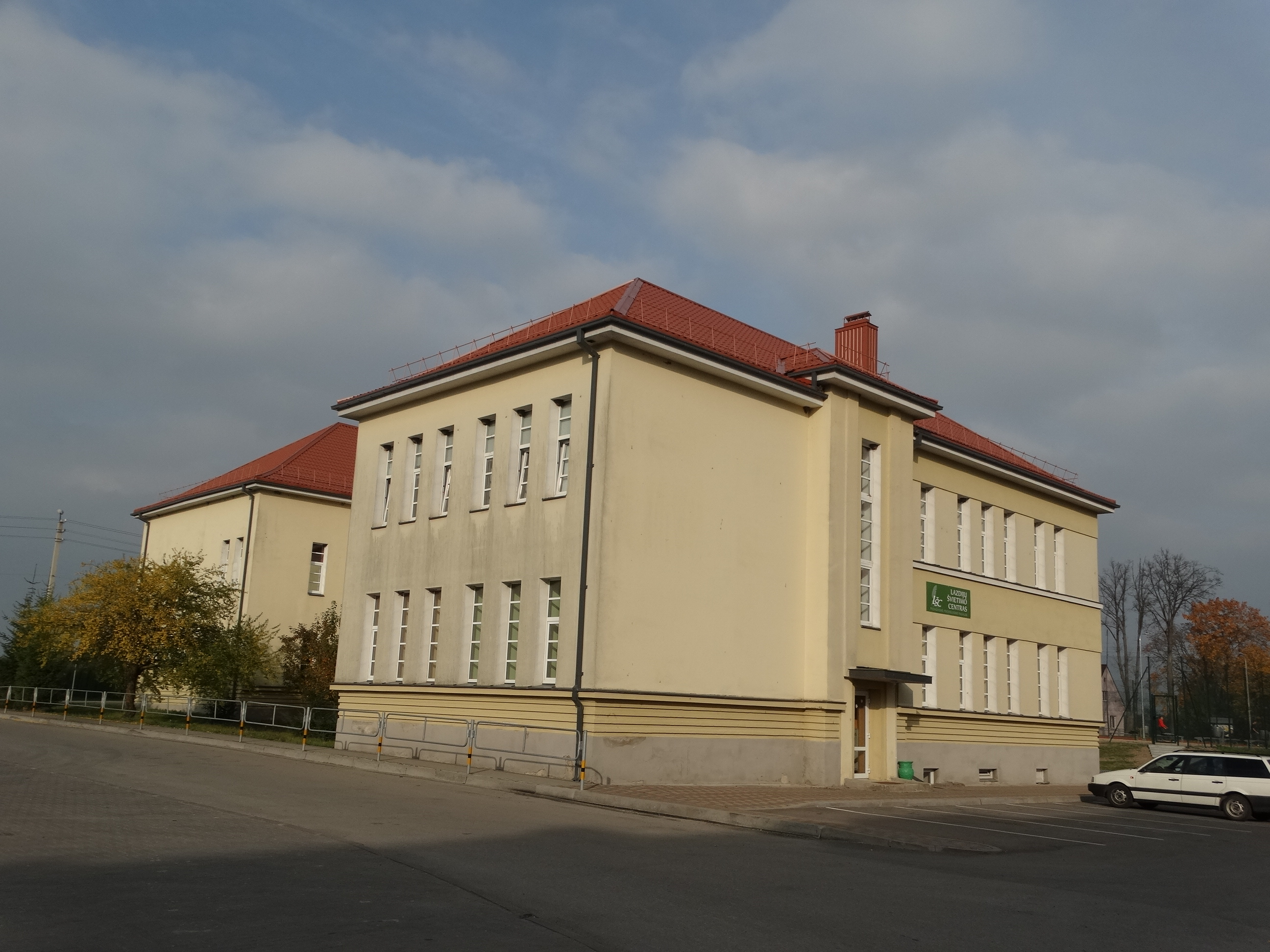 Educational centre, Lazdijai, Lithuania